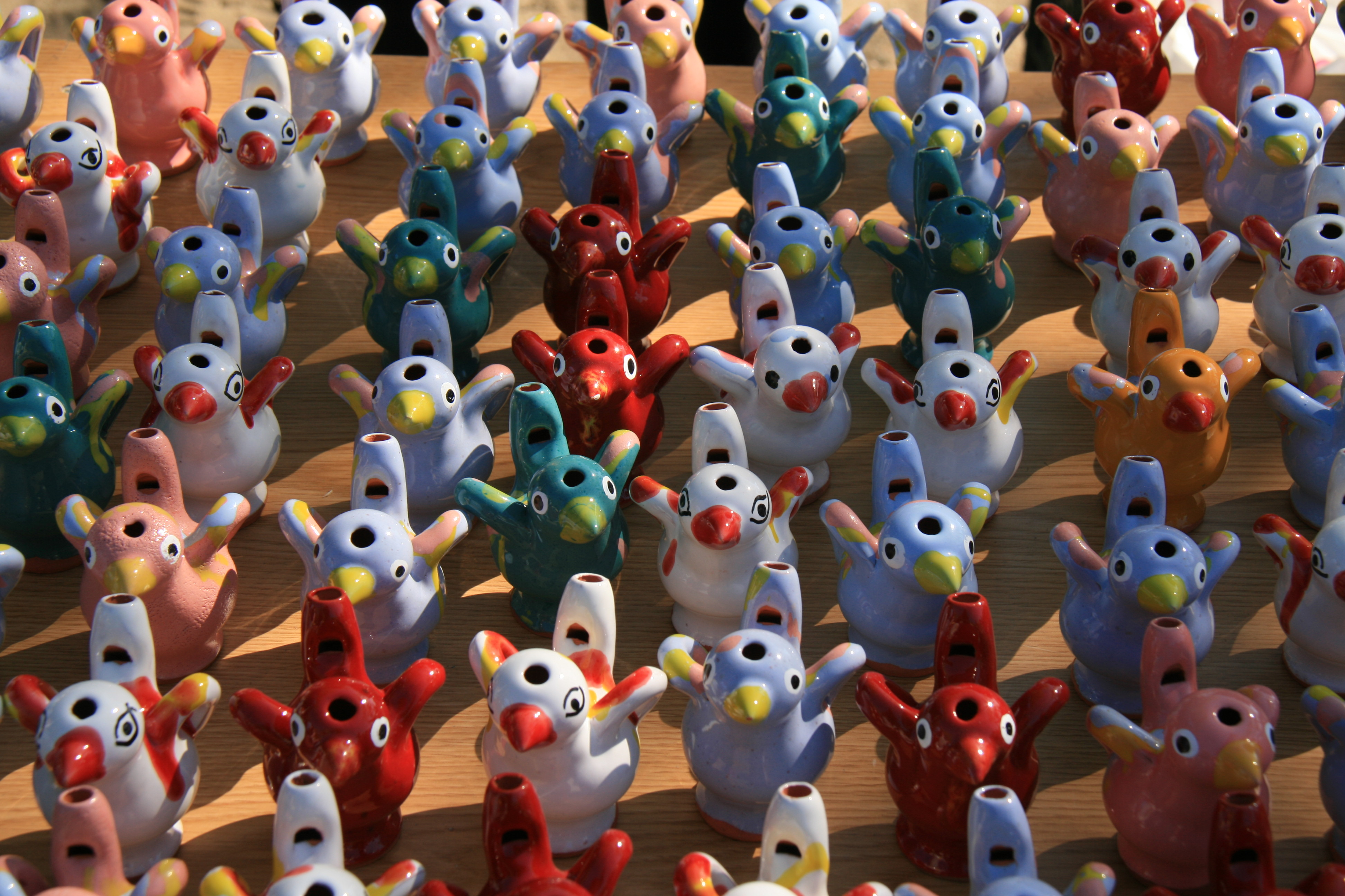 "Pitos del Santo". These are whistles made of clay or crystal to celebrate the holidays of San Isidro Labrador.